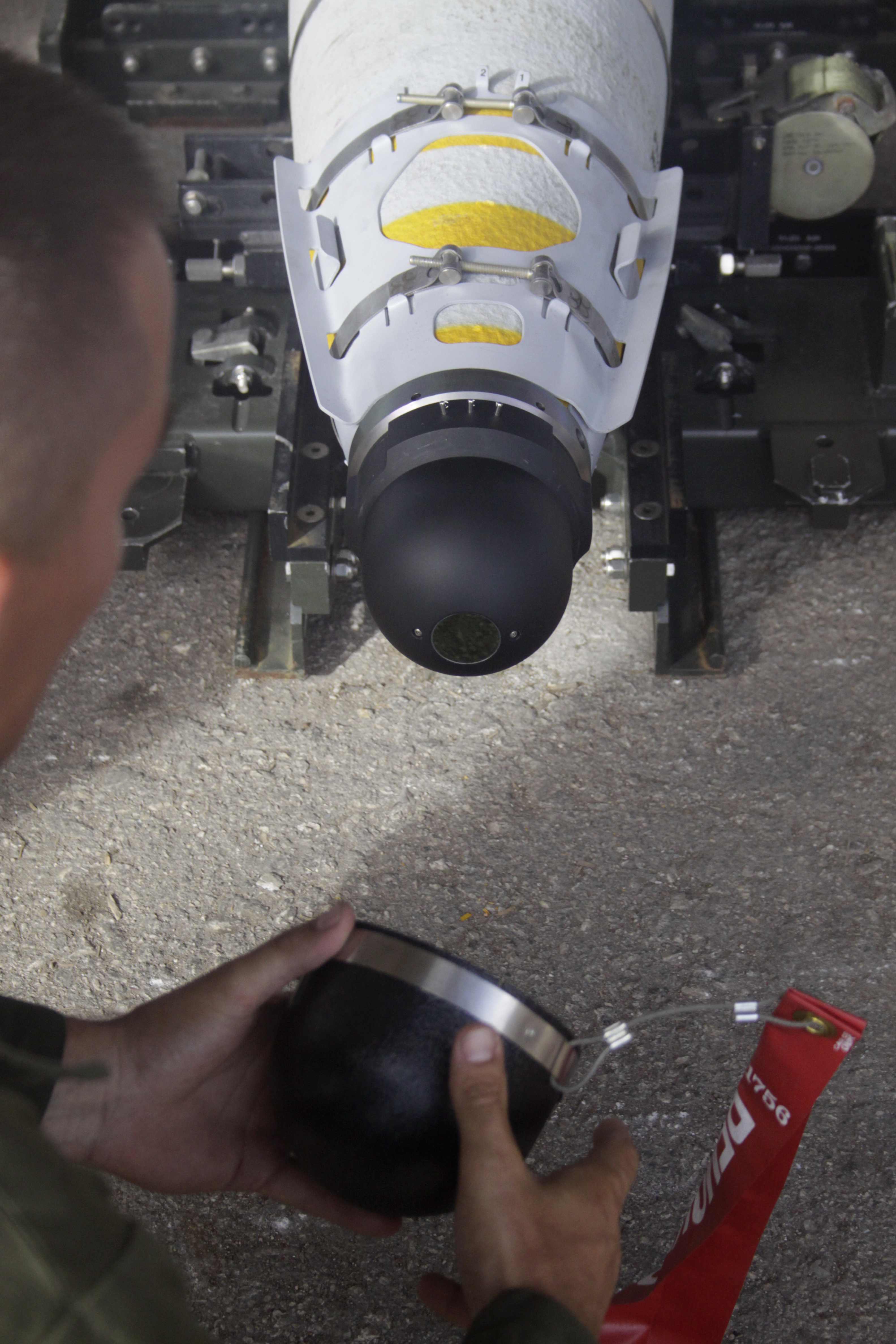 Sgt. William McGregor, Marine Aviation Logistics Squadron 11 Ordnance Marine removes the nose of a laser Joint Direct Attack Munition missile here May 17, 2012. Ordance Marines supply bombs and munitions to all three flying squadrons during Exercise Geiger Fury 2012.